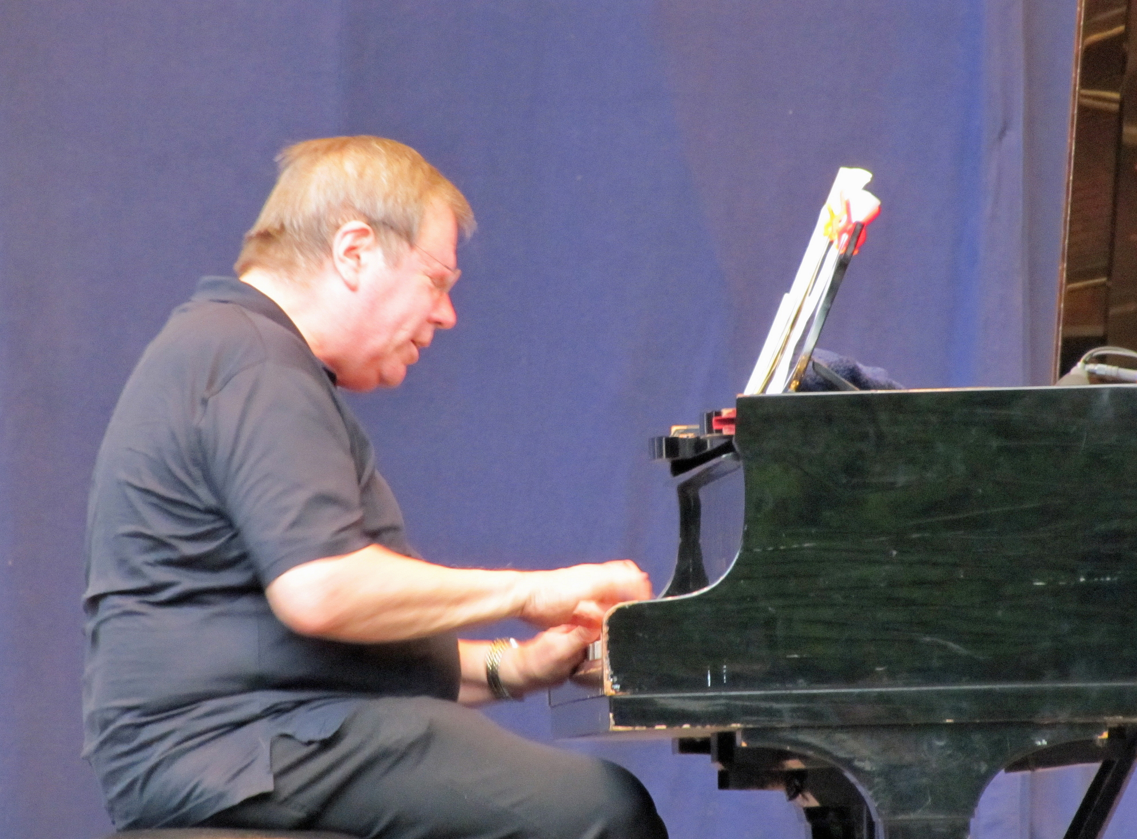 Bob Degen with "Zitrone und Zimt" (Lemon and Cinnamon), 2010 at "Palmengarten" in Frankfurt am Main, Germany.